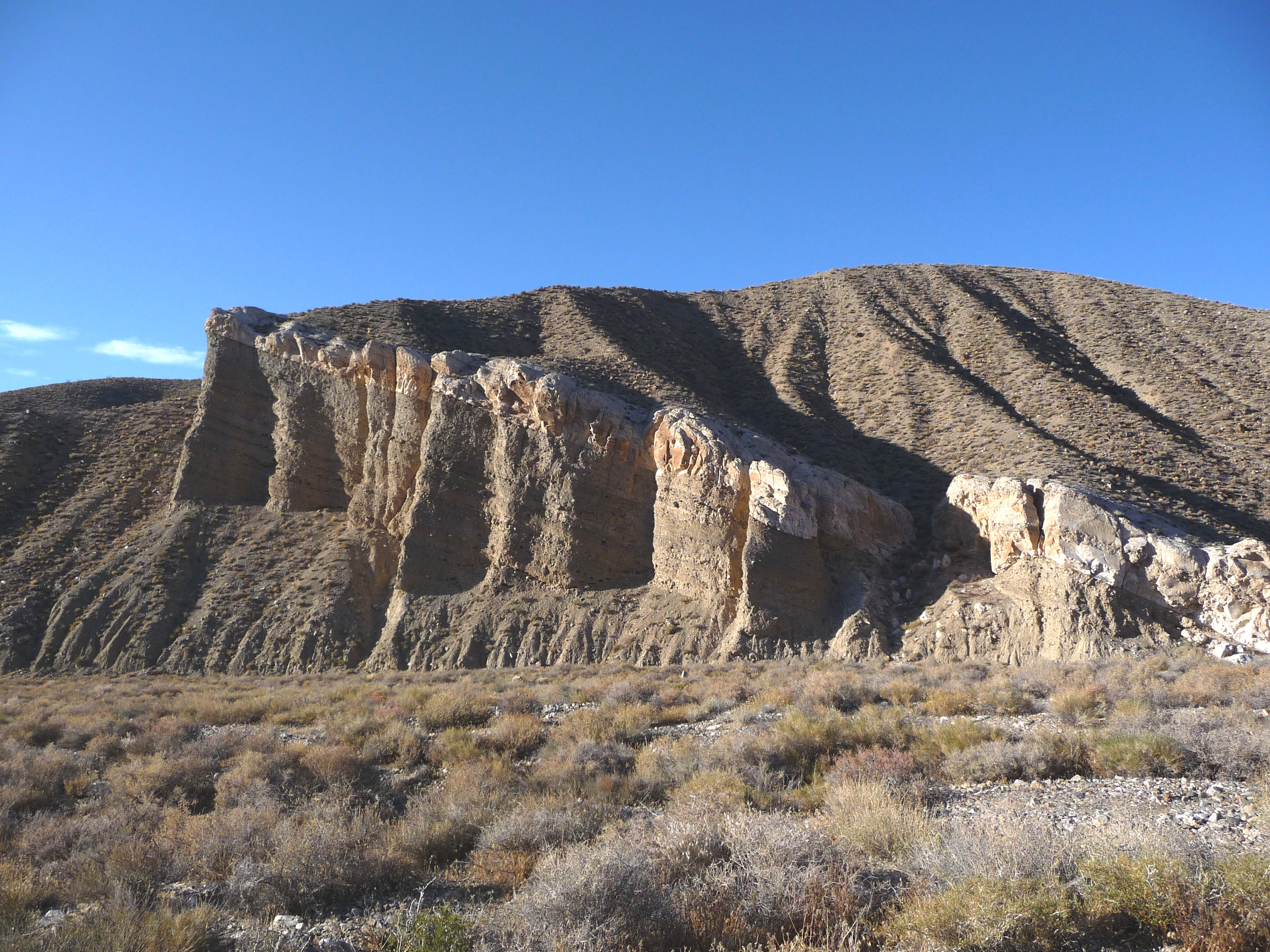 Death Valley NP - Panamint Range - outcrop upturned along Emigrant Canyon Rd